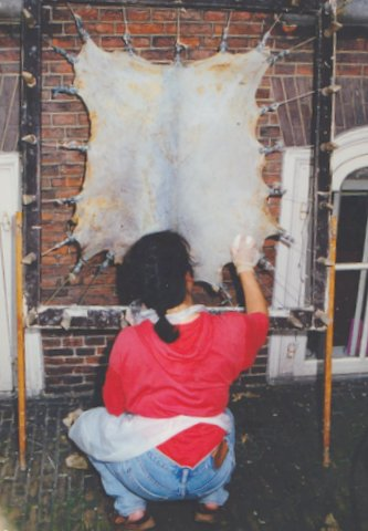 The woman who is making parchement